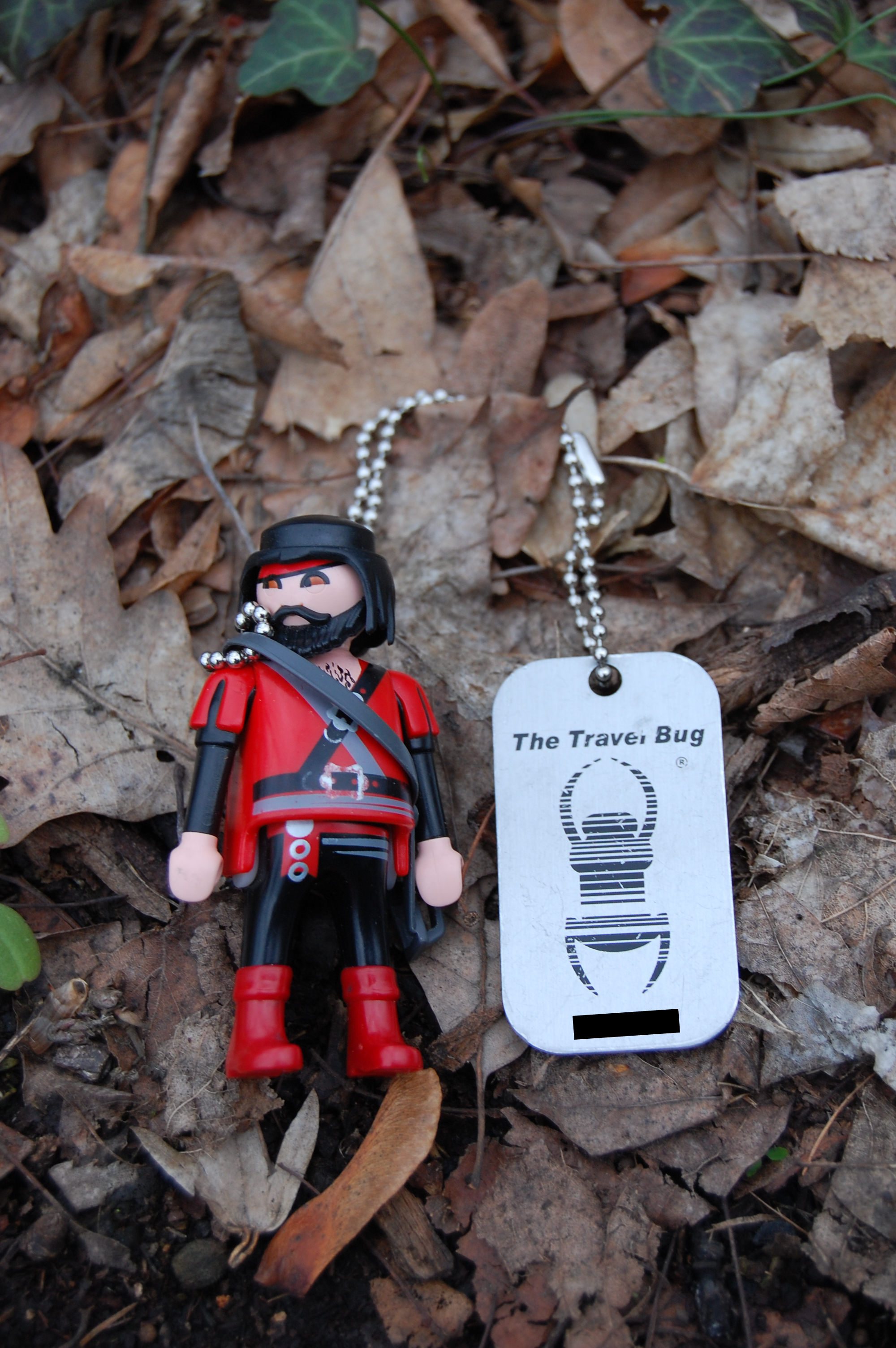 Pirat Captain Kyro Travel Bug